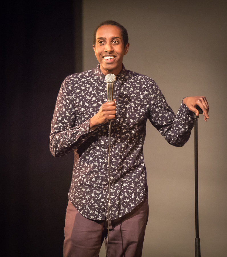 Ahmed Mamow on the stage at Late Night Fredag on Parkteatret. The comedy event took place on 27. January 2017 in Oslo as part of Crap Comedy festival 2017. Lineup:Sofie Hagen (comedian)Dag Sørås (comedian)Martin Beyer-Olsen (comedian)Ahmed Mamow (comedian)Christoffer Schjelderup (comedian)Atle Antonsen (comedian)